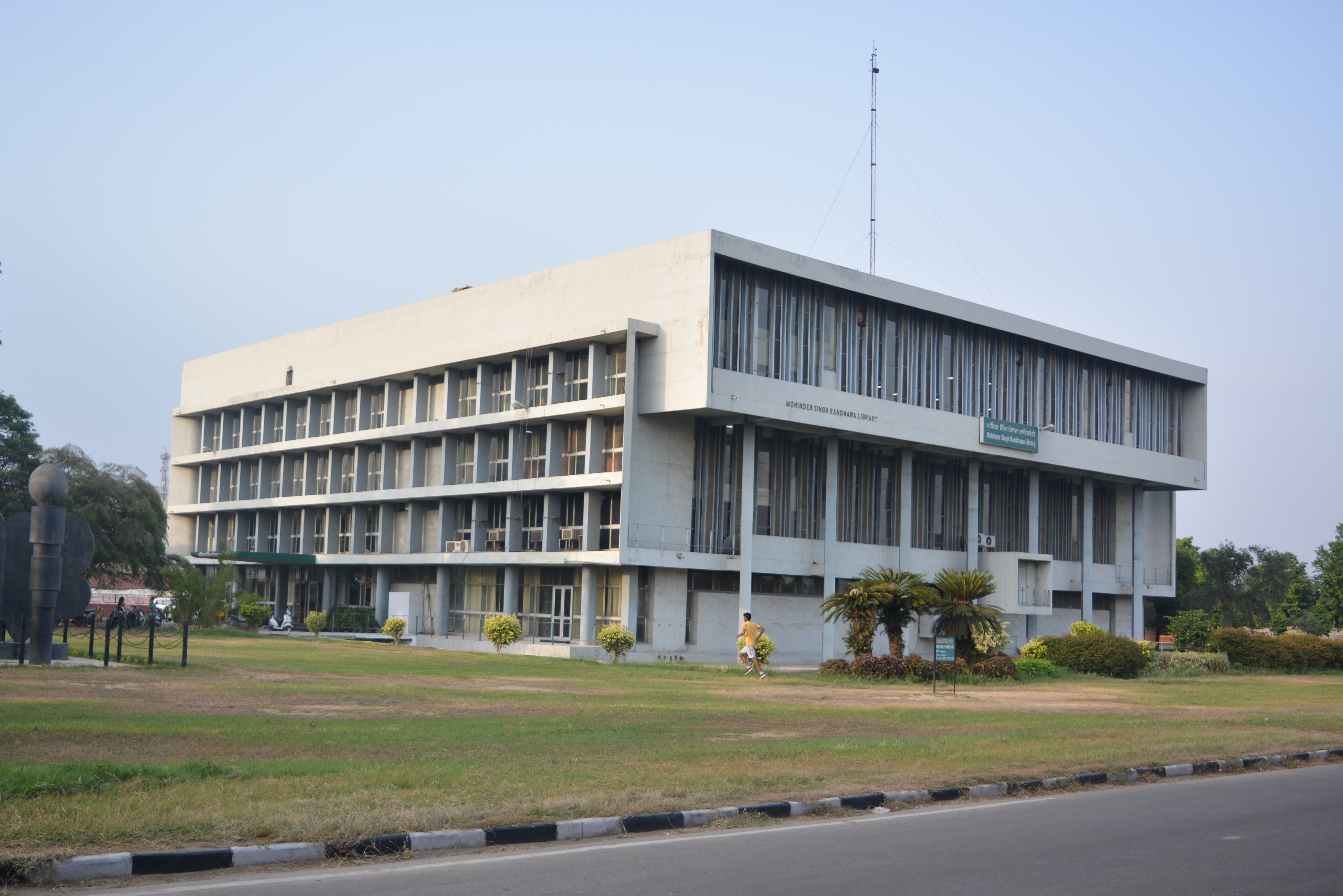 Mohinder Singh Randhawa Library, PAU Ludhiana